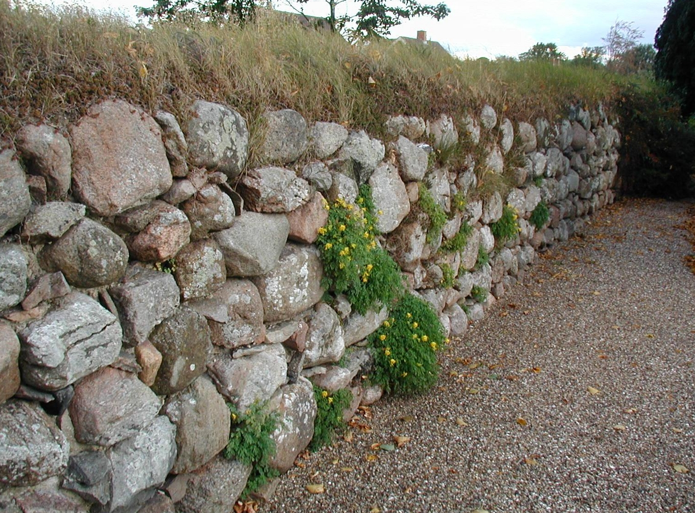 Pseudofumaria lutea: Naturalised on the church wall at the church of Malling, Jutland